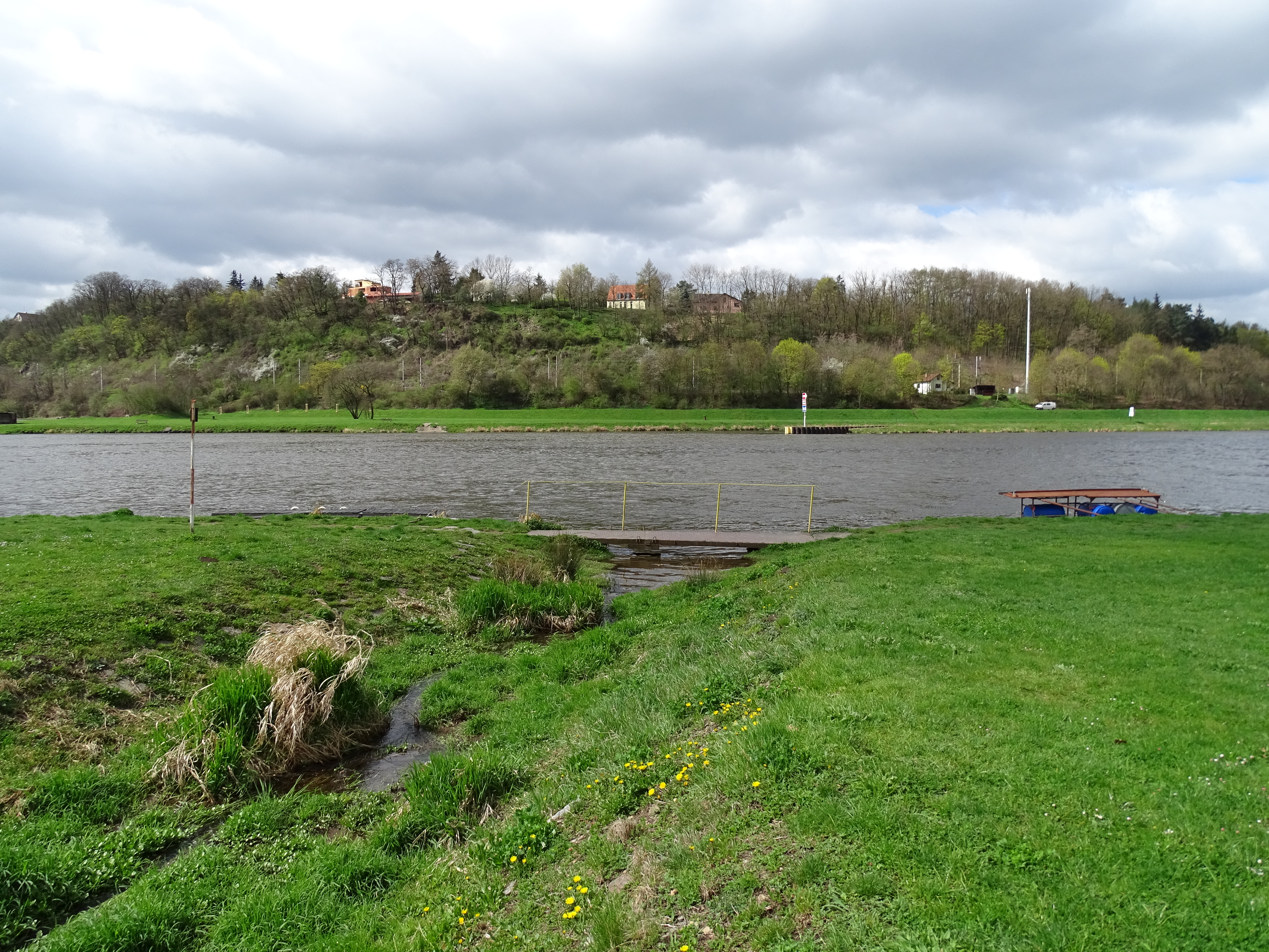 Klecany-Klecánky, Prague-East District, Central Bohemian Region, Czechia, Vltava river, outfall of the Přemyšlenský potok.